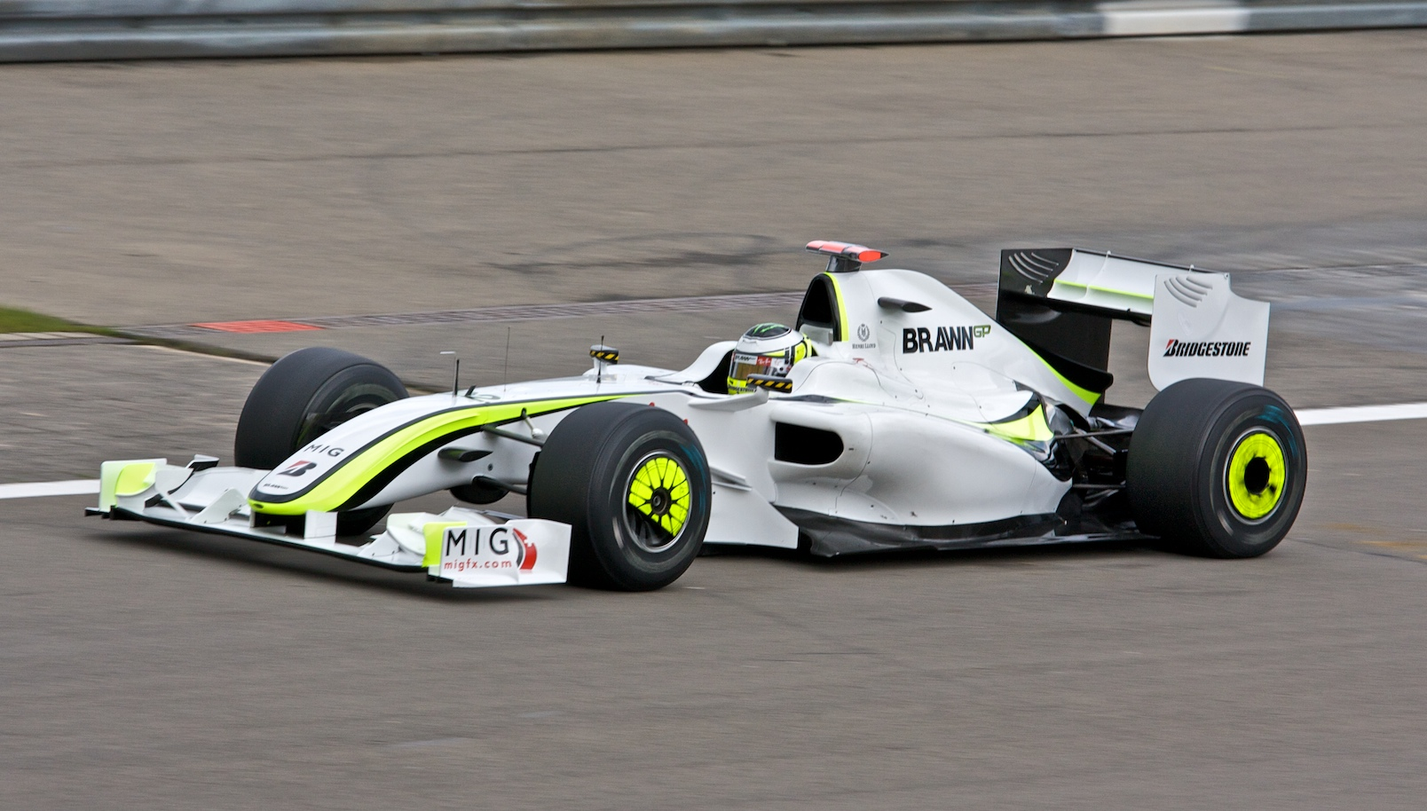 Jenson Button driving for Brawn GP at the 2009 German Grand Prix.